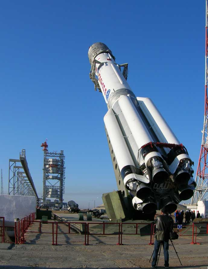 ArabSat 4B Launch campaign. The Proton-M, with Breeze-M upper stage and the payload, are rotated into the vertical position at Pad No. 39. Later, the mobile service tower (seen in the background) will roll up to the rocket and "embrace" it with its service platforms.